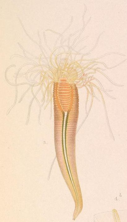 Terebella lapidaria Linnaeus, 1767, synonym used by McIntosh: Leprea lapidaria (Linnaeus, 1767) after Emil Edler von Marenzeller (1884). This species is NOT the Leprea lapidaria from the South West African coast, described by H. Augener (1918). Polychaeta. Beiträge zur Kenntnis der Meeresfauna Westafrikas. 2(2): 67–625, here pp. 518–521, and synonymized as Leprea (Terebella) lapidaria Augener, 1918 with Terebella schmardai Day, 1934 (WoRMS, G. Read & K. Fauchald). It is the Leprea lapidaria from locations in the Mediterranean and at the French and British Atlantic coast, redescribed by Emil Edler von Marenzeller (1884): Zur Kenntniss der adriatischen Anneliden. Dritter Beitrag. Terebellen (Amphitritea Mgrn.) Sitzungsberichte der Akademie der Wissenschaften, mathematisch-naturwissenschaftliche Klasse 89, pp. 151–215, diagnosis of Leprea lapidaria on pp. 184–185.